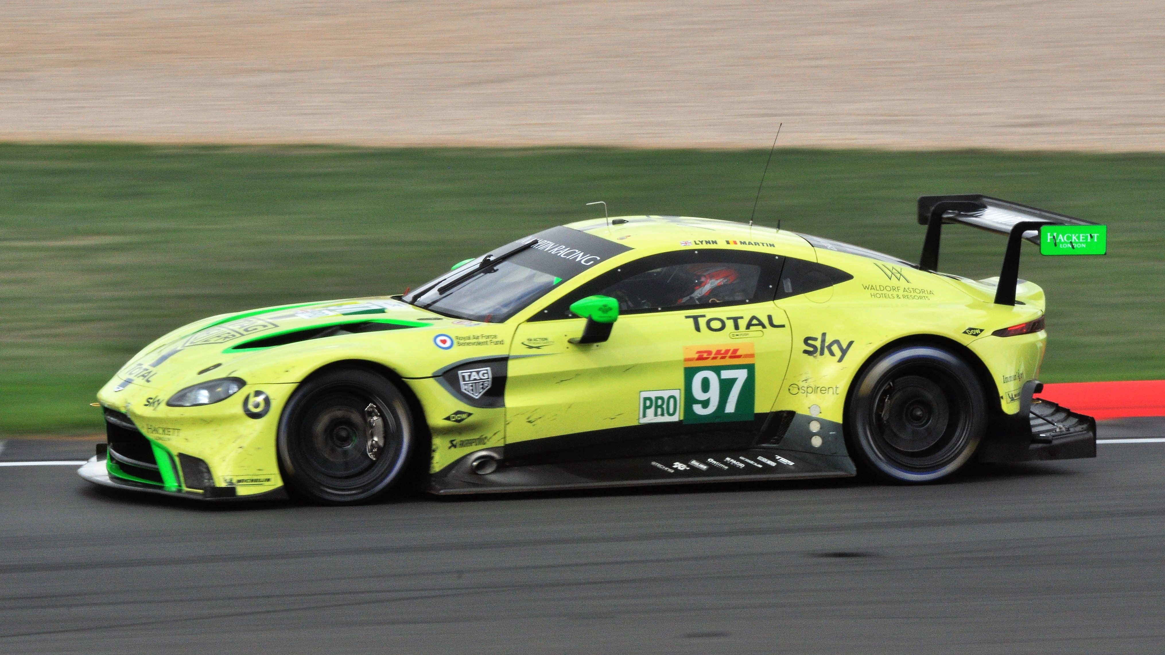 British driver Alex Lynn in the number 97 Aston Martin entry, at Club corner during the 2018 6 Hours of Silverstone race. Lynn and his co-driver, Belgian driver Maxime Martin, finished just off the podium in 4th place in the LMGTE Pro class.